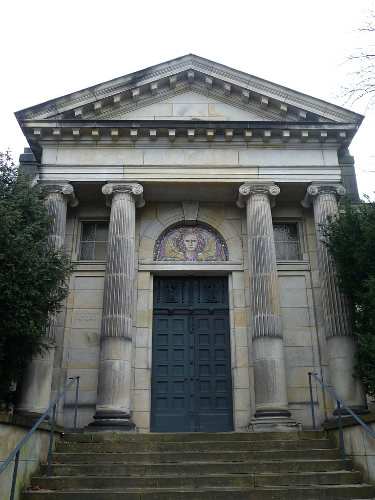 Crematorium / columbarium at graveyard Riensberg in Bremen